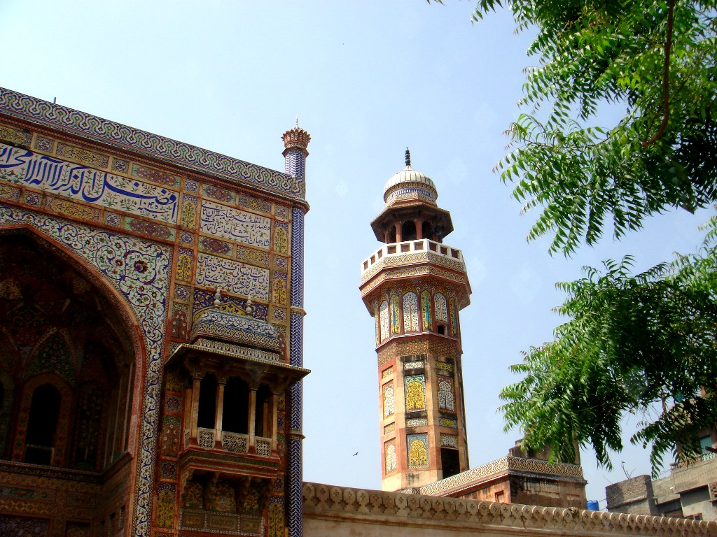 Picture by M Kaiser Tufail, 20 Oct 2006